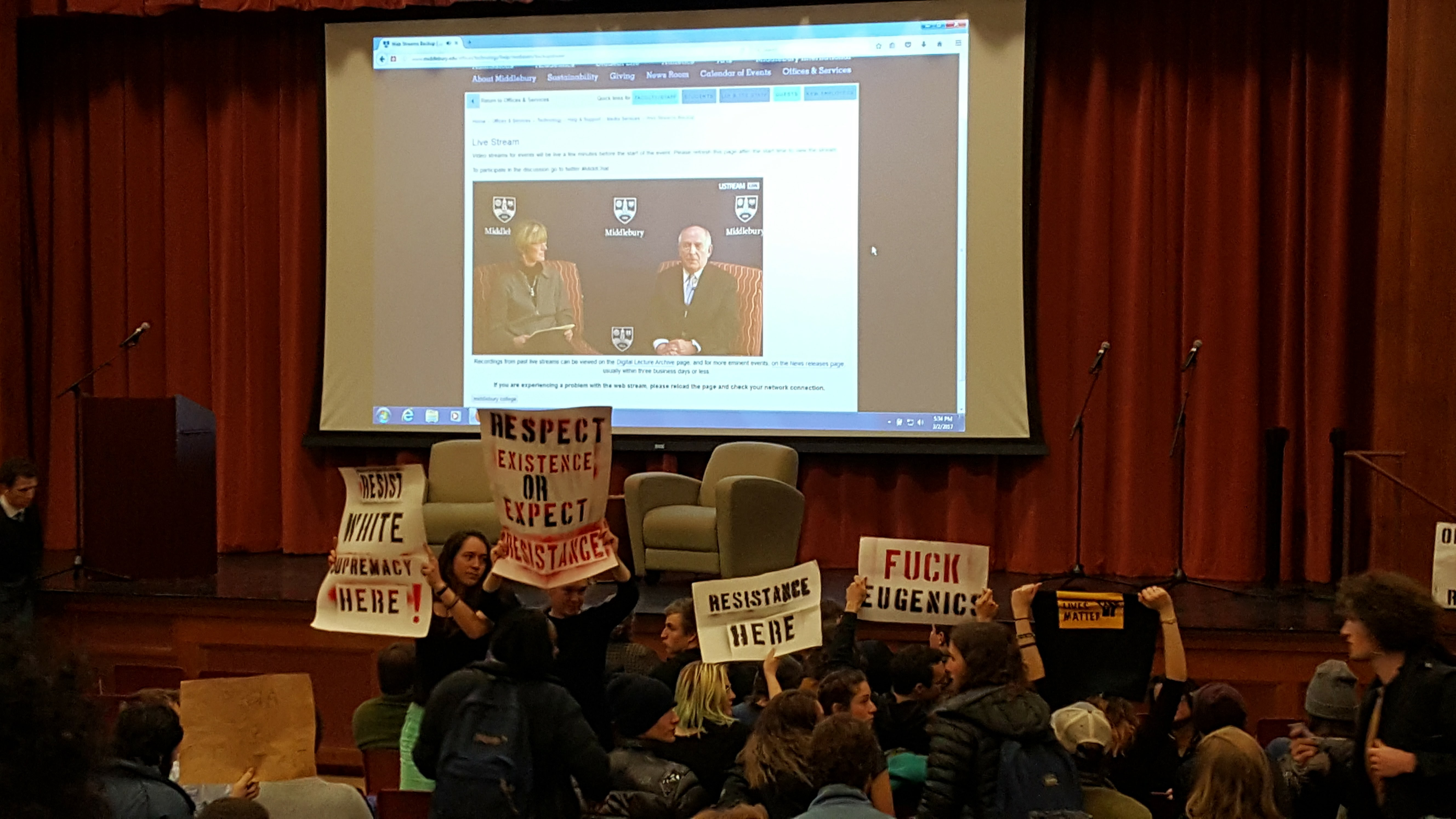 Charles Murray speaks with Middlebury College professor Allison Stanger as students protest.